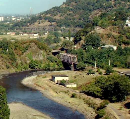 Zestaponi. View from Shorapani fortress